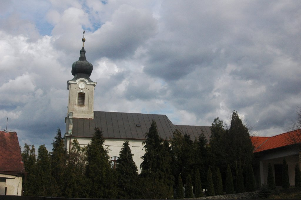 Cerová, catholic church (1878)